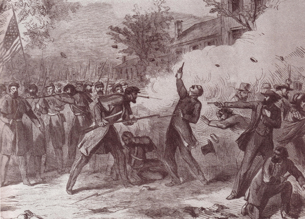 “Terrible Tragedy at St. Louis, Mo.” wood engraving of the Camp Jackson Incident originally published in the New York Illustrated News